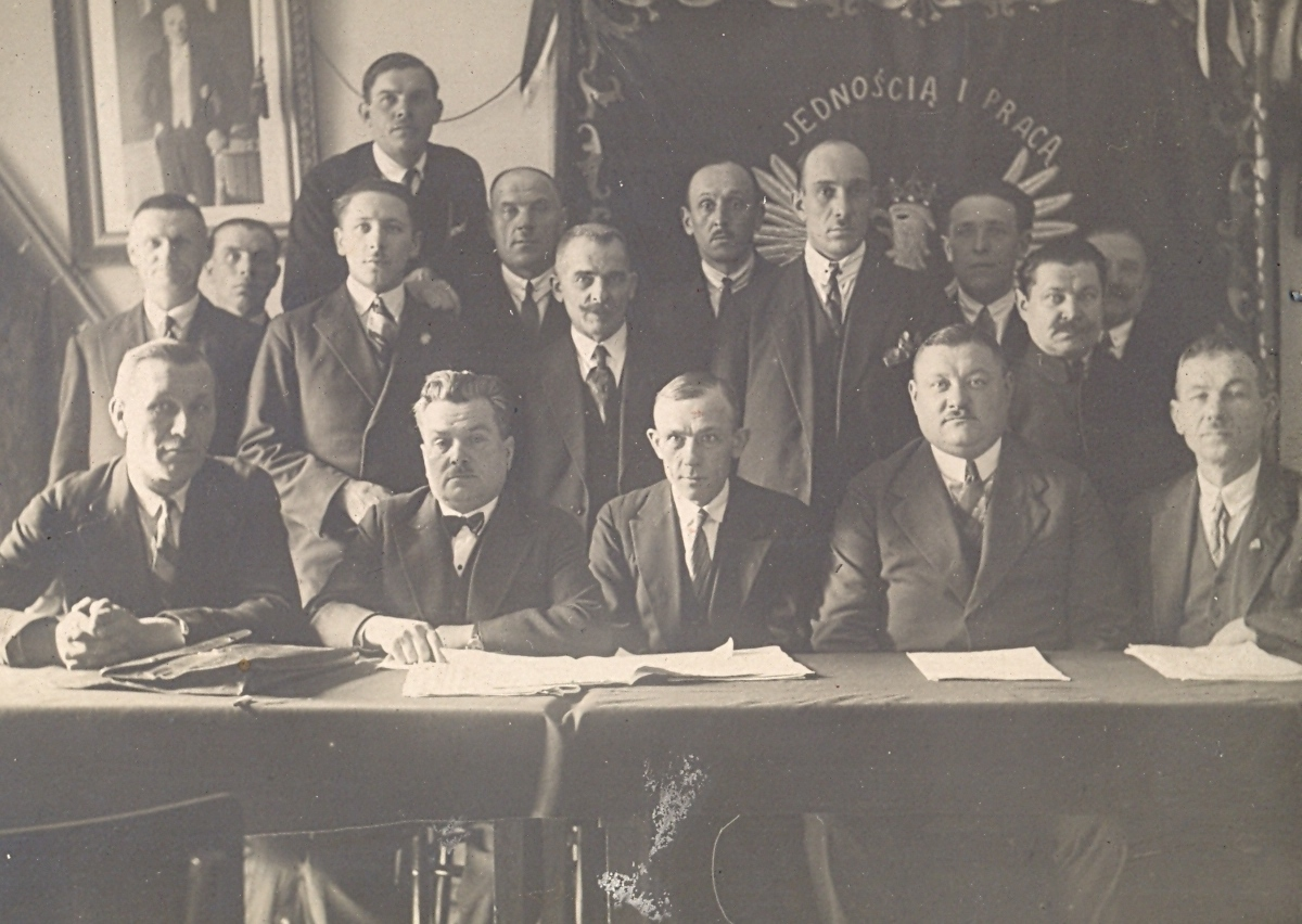 Junior High School construction committee. Photo made in 1932 in the photo studio in Oświęcim, which was closed down by Germans in 1939.